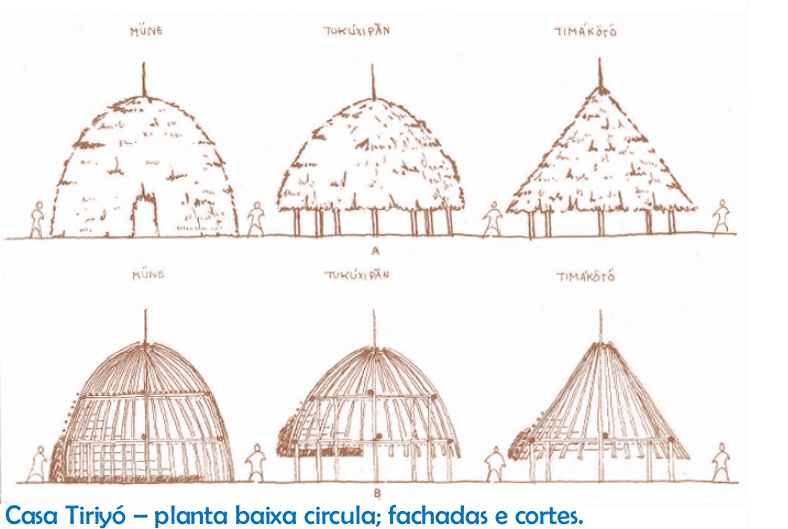 Casa Tiriyó - Fachadas e cortes